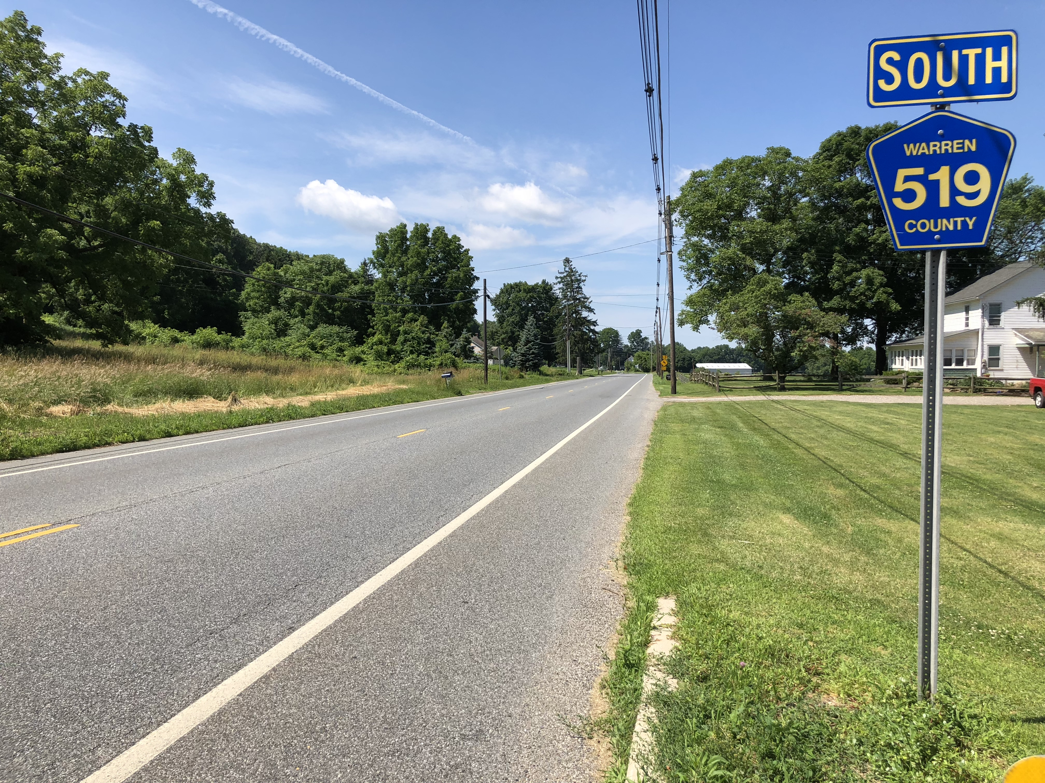 View south along Warren County Route 519 (Belvidere Road) just south of Grist Mill Road in Harmony Township, Warren County, New Jersey